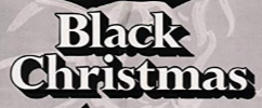 Logo for Black Christmas (1974)